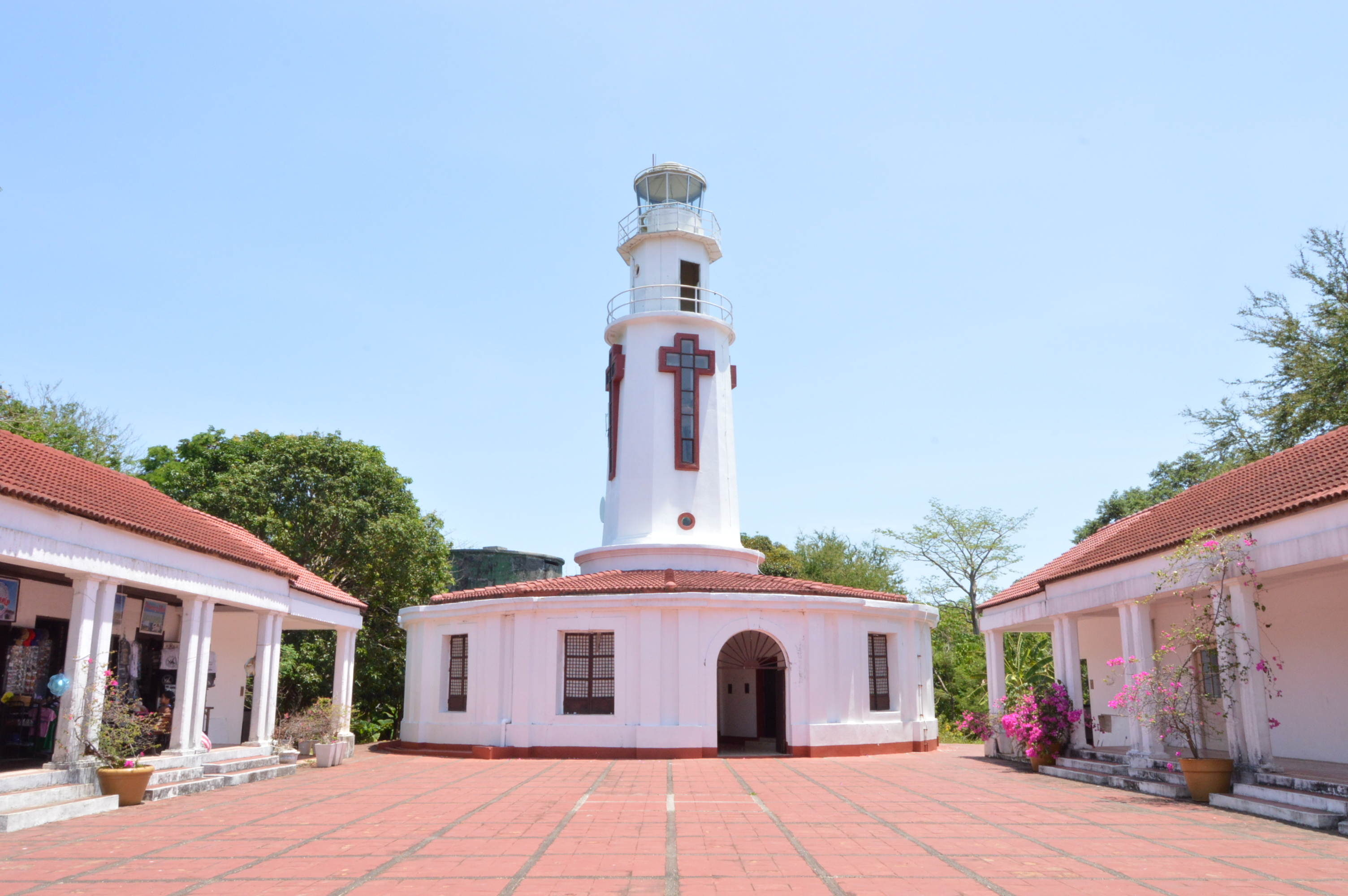 The Spanish-era lighthouse at Corregidor Island. The photo was taken in March 2019.